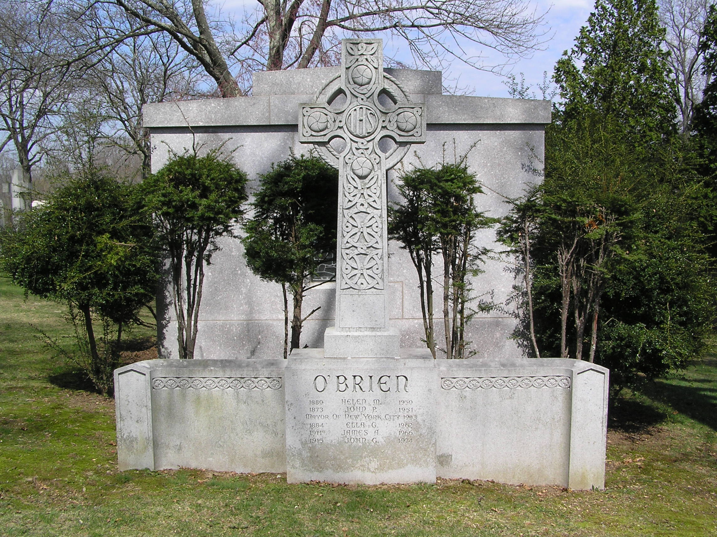 The headstone of John P. O'Brien in Gate of Heaven Cemetery